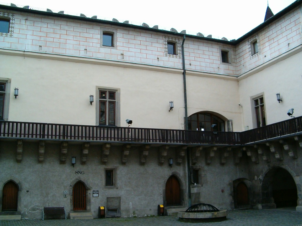 Zvolen Castle Court, Slovakia Author: (WT-shared) Strapontin.